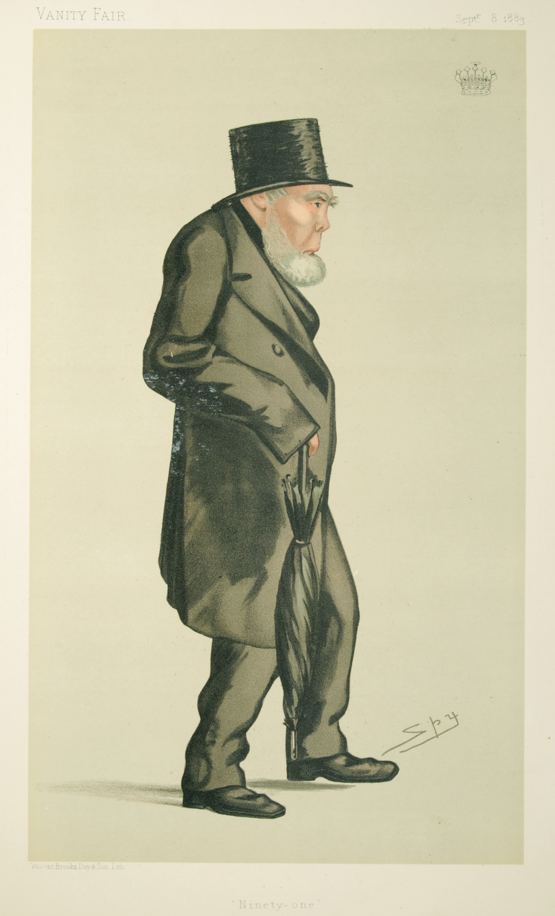 Statesmen No.431: Caricature of The Earl of Mount Cashell. Caption reads: "Ninety-one"